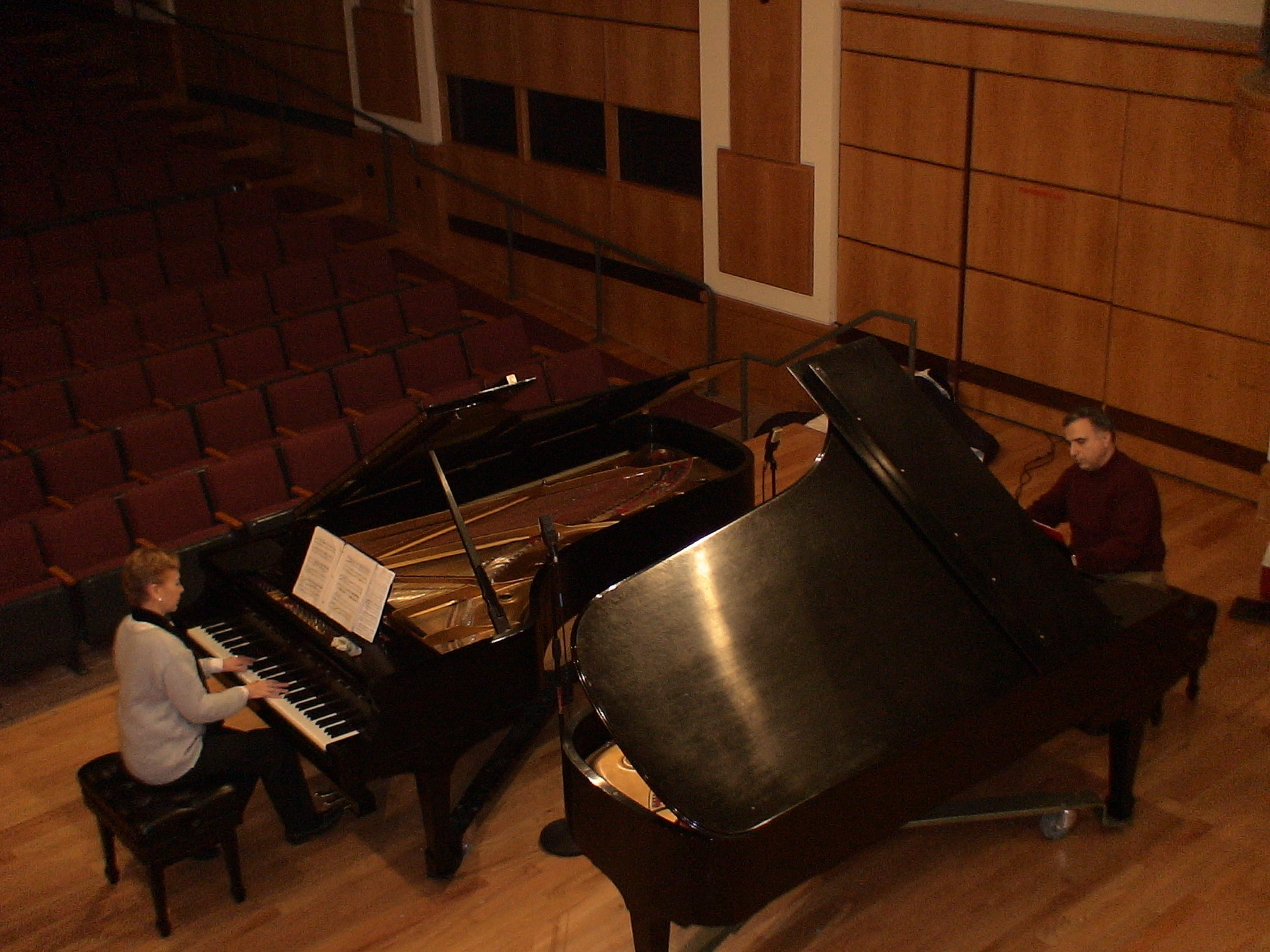 Invencia Piano Duo (from left to right): Oksana Lutsyshyn and Andrey Kasparov